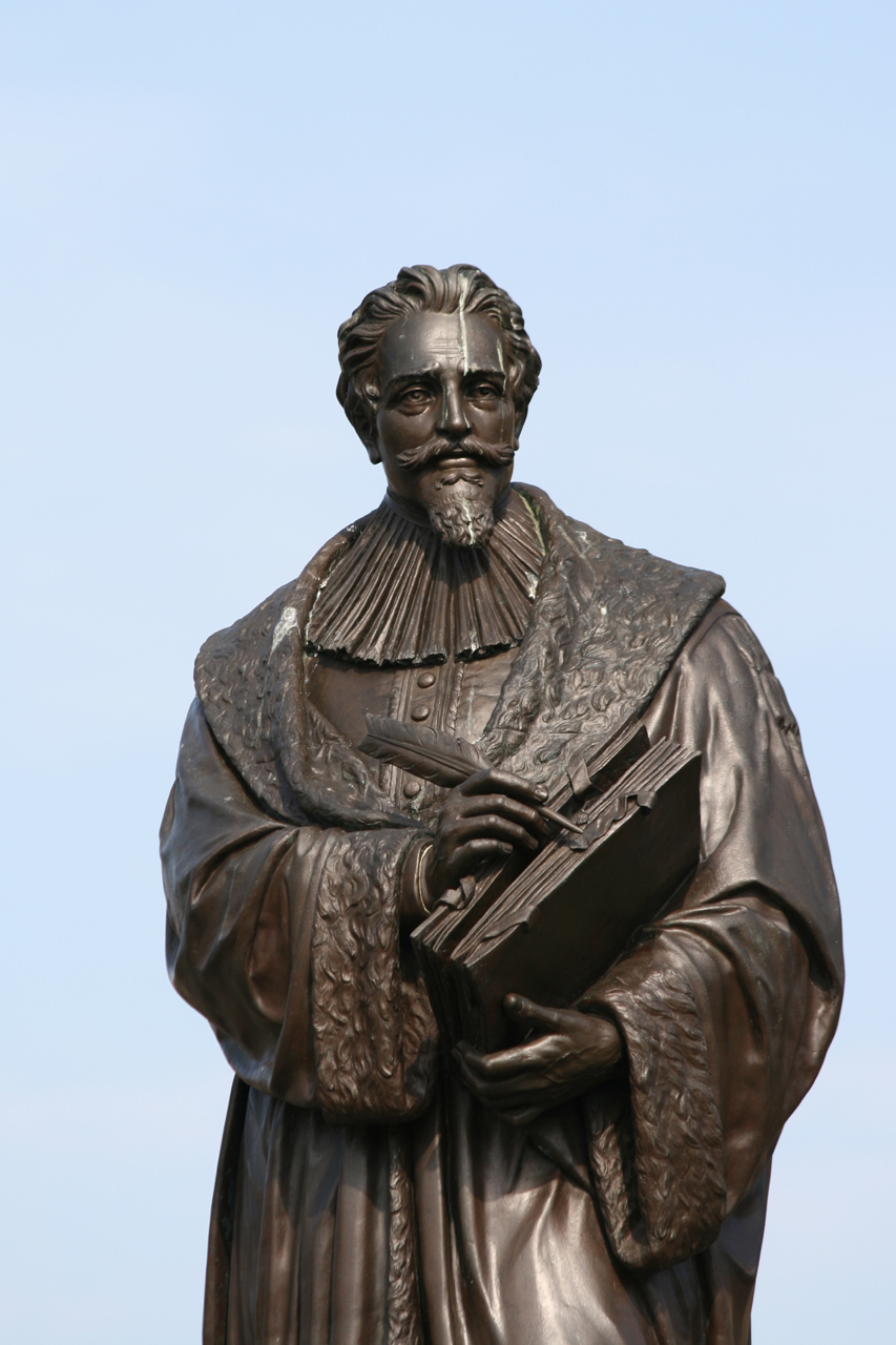 Statue of Hugo Grotius in Delft (1886) by Franciscus Leonardus Stracké (1849-1919)